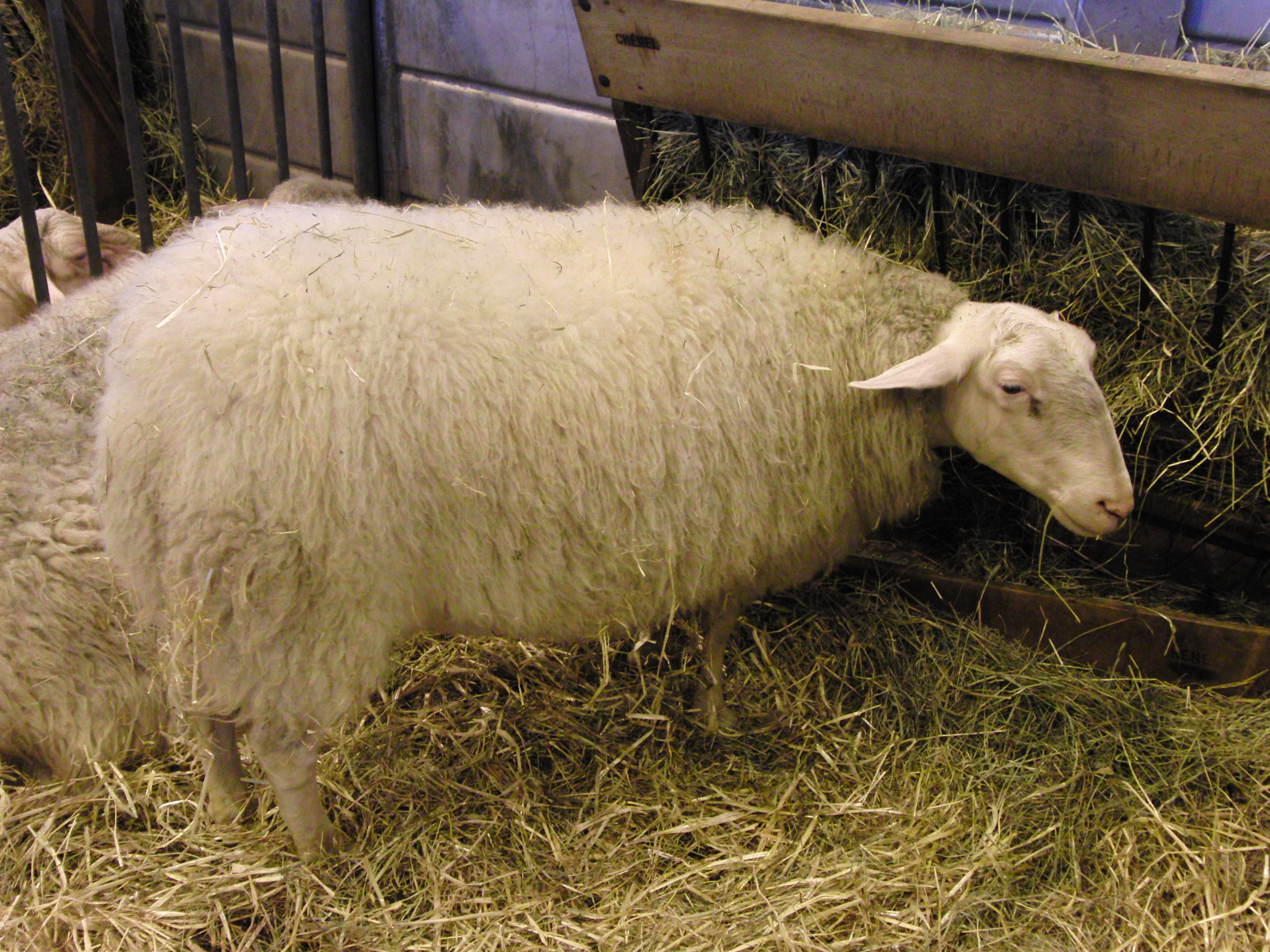 Limousin sheep - Paris International Agricultural Show 2012, Paris, France